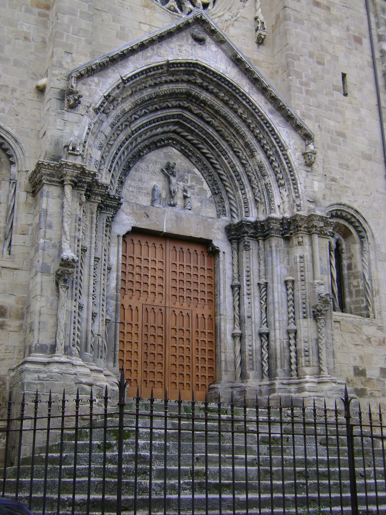 The portal of the church of Santa Maria Maggiore, Lanciano, Chieti, Abruzzo